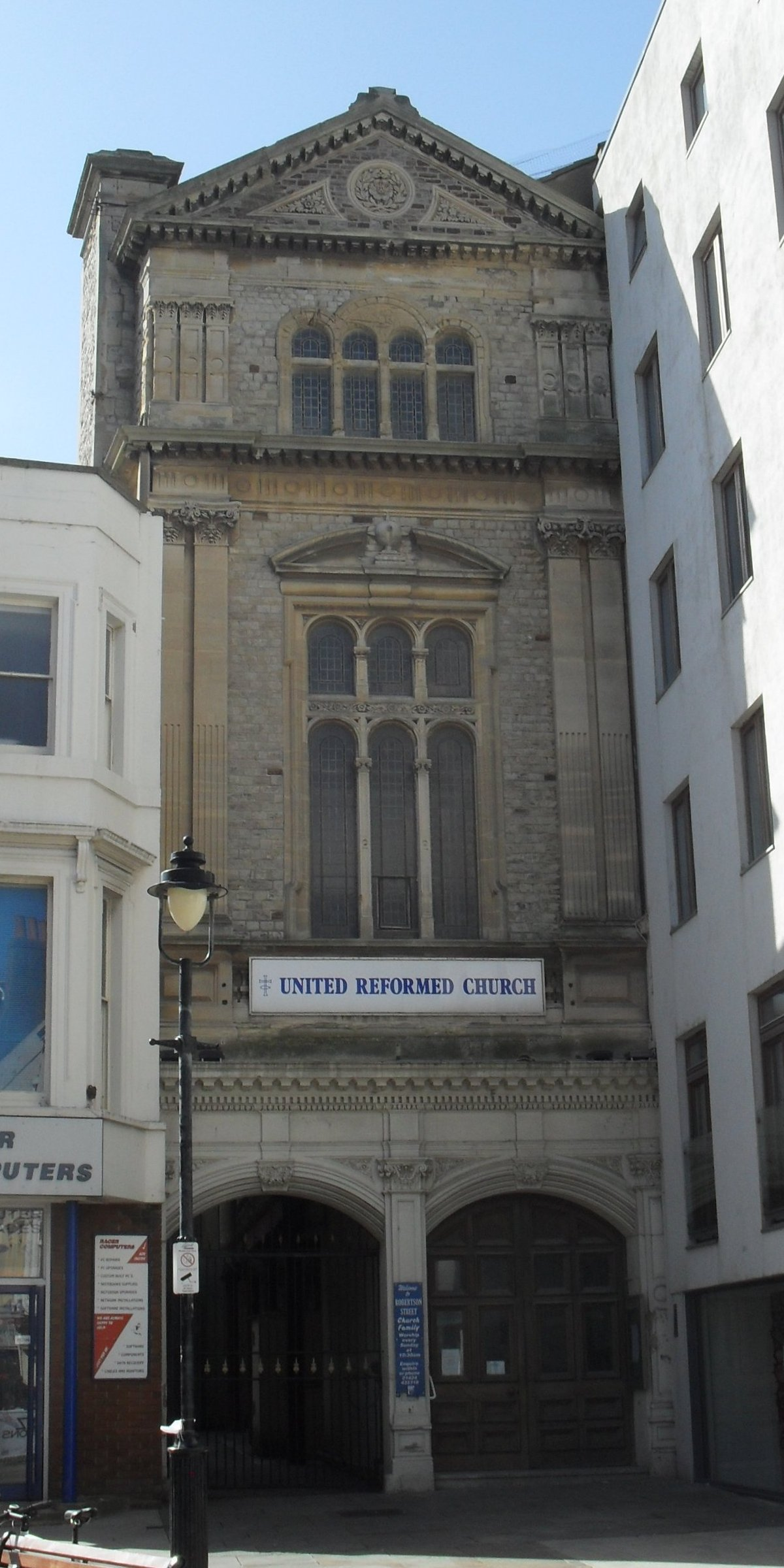 Robertson Street United Reformed Church, Robertson Street, Hastings, East Sussex, England. Designed in 1884 by Henry Ward as a Congregational church to replace an 1856 church on the same site; constructed by John Howell & Son of Hastings; it was completed in the 1990s. It was the last work in which John Howell Senior (ca.1824-1893) cooperated with his son.